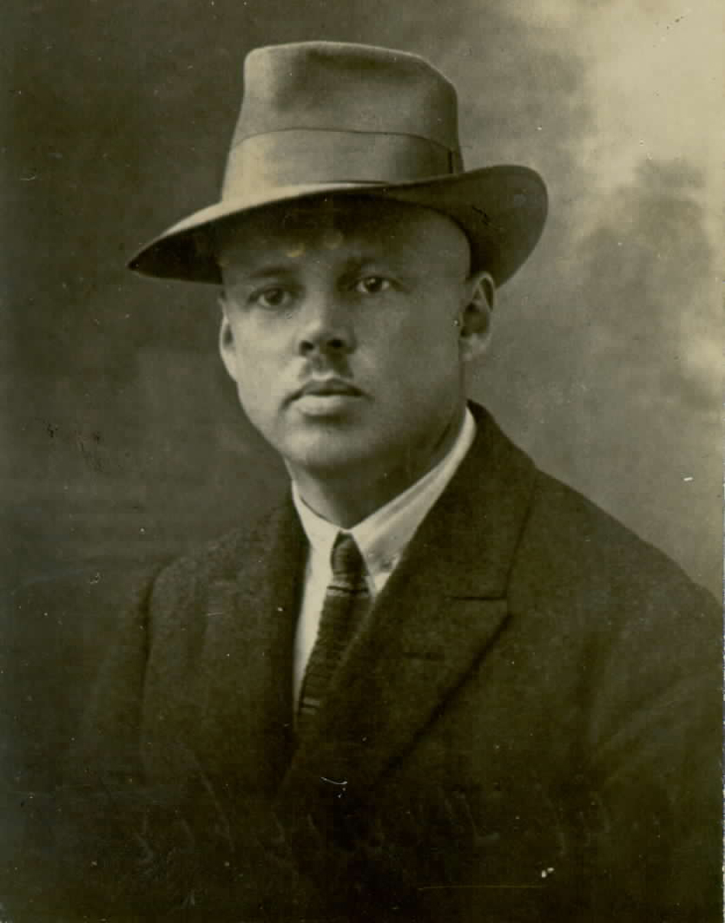 Alojz Kraigher (1877-1959), Slovene writer and playwright.